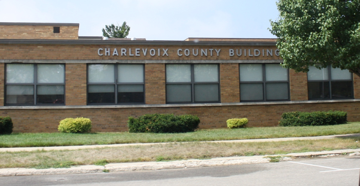 The building for Charlevoix County, Michigan.